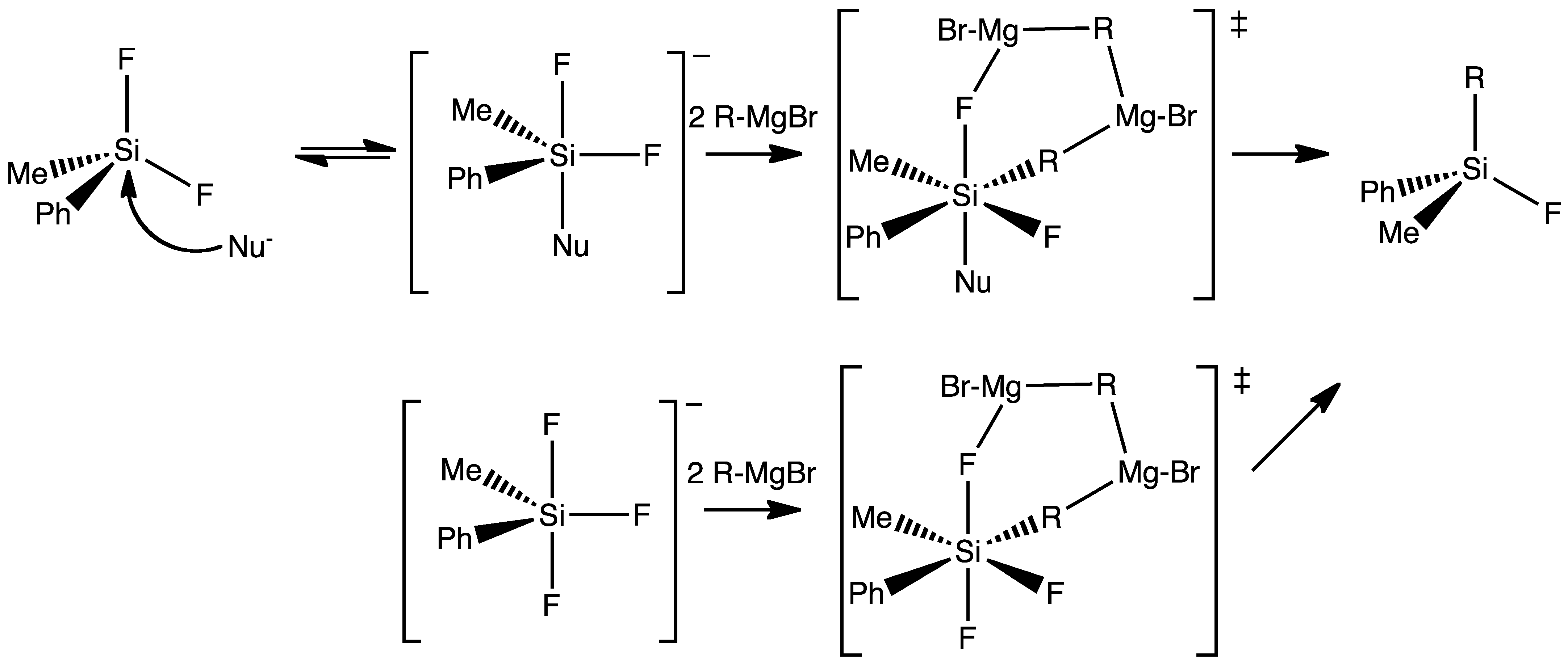 Grignard reaction mechanism for hypercoordinated silane